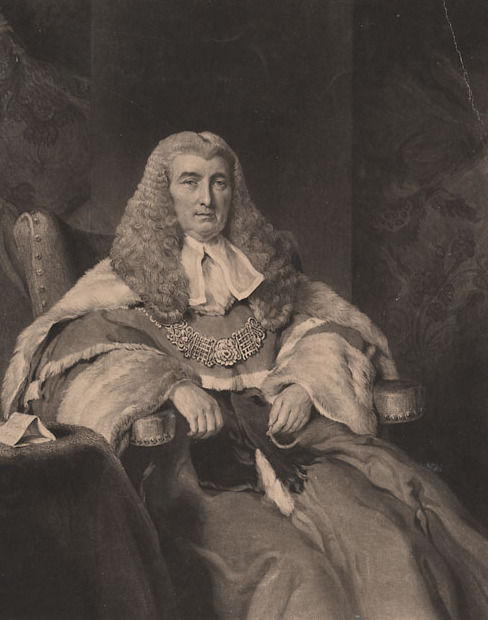 Portrait of Charles Abbott, 1st Baron Tenterden (1762-1832)